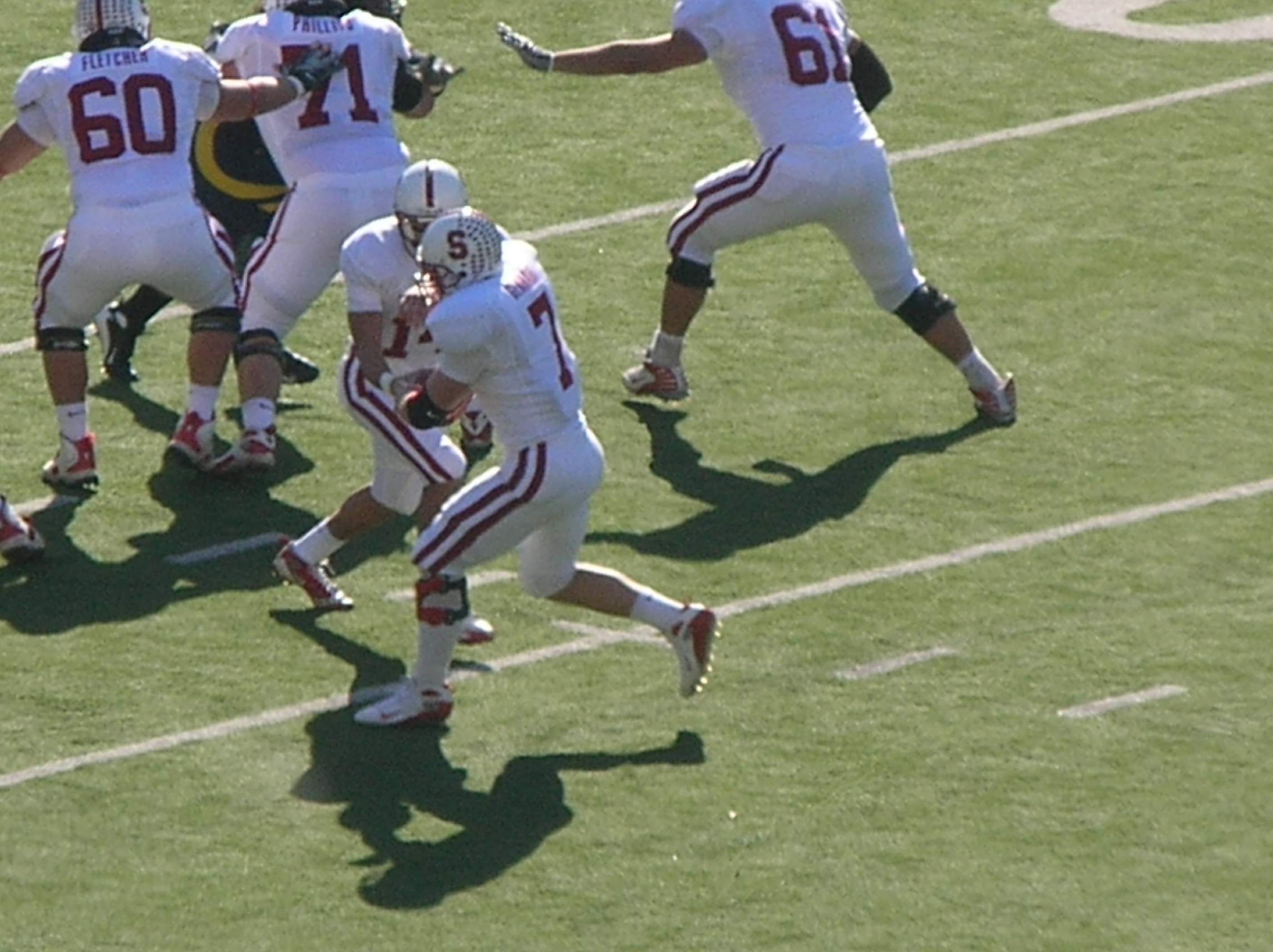 Stanford quarterback Tavita Pritchard (#14) hands the ball off to running back Toby Gerhart (#7) during the 2008 Big Game at California Memorial Stadium. The Golden Bears won 37-16.